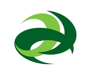 Misato Miyagi chapter